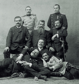 Black Hand group photo. The first one laying is Dragutin Dimitrijević "Apis", the second one, in grey, is Vojislav Tankosić.